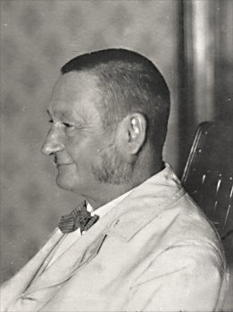 Otto Benndorf, founder of the Austrian Archaeological Institute